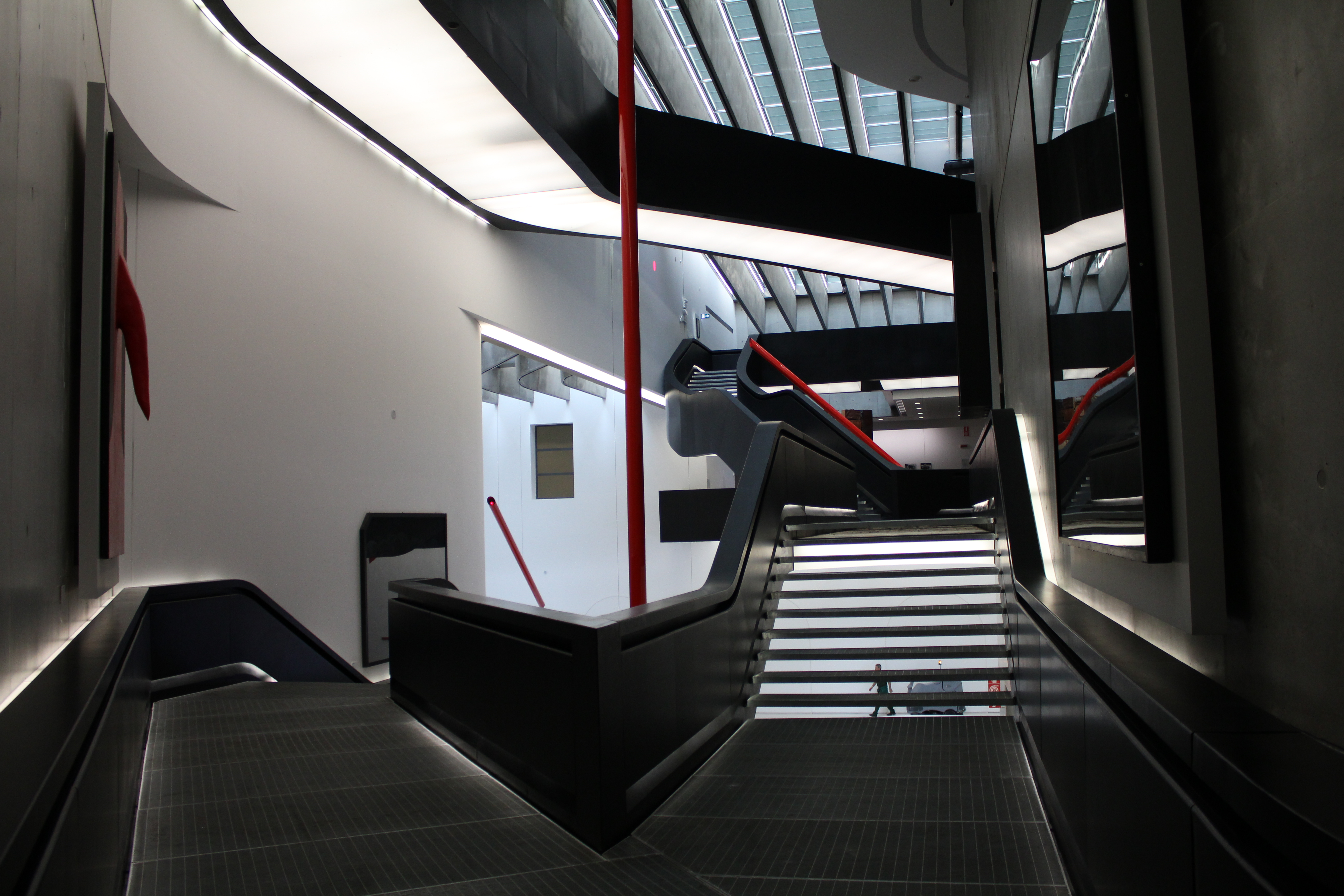 Interior of the MAXXI museum for contemporary arts in Rome, Italy. Architect: Zaha Hadid